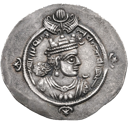 Coin of Ardashir III, a Sasanian king.